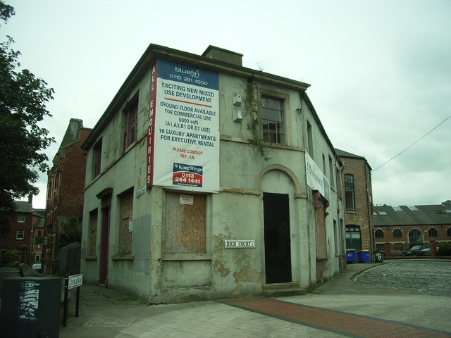 High Court, Leeds The home of Mary Bateman a mass murderer who was the last witch from Leeds to be hanged in 1809.